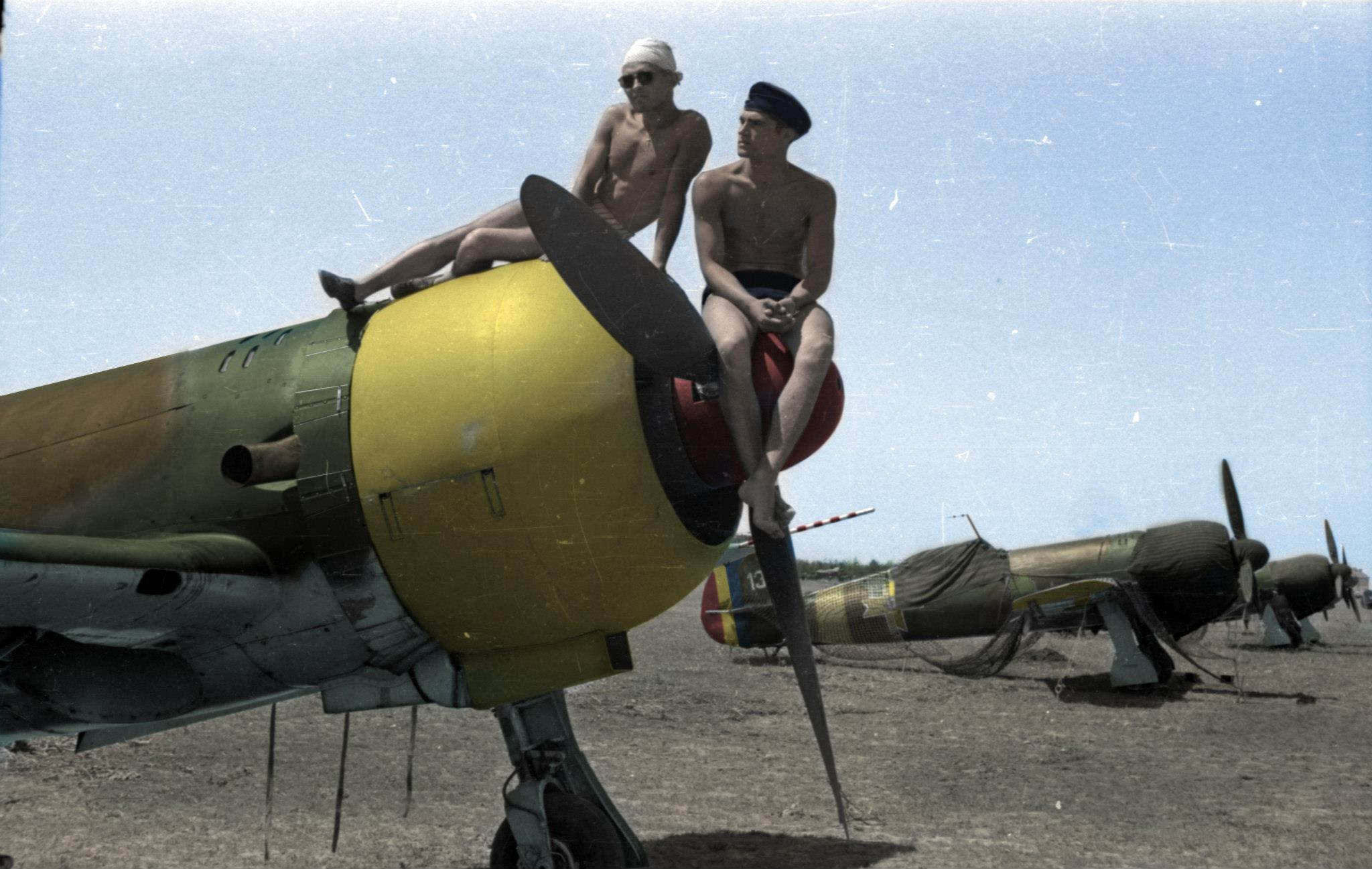 IAR-80 awaiting action